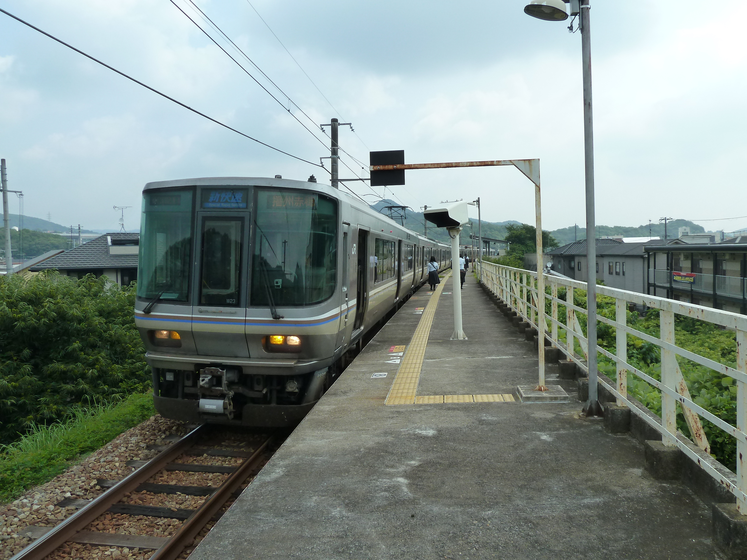 The platform of Nishi-Aioi Station.